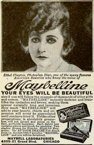 Ad for Maybelline eyebrow and eyelash darkener with actress Ethel Clayton, on page 116 of the January 1922 Photoplay.